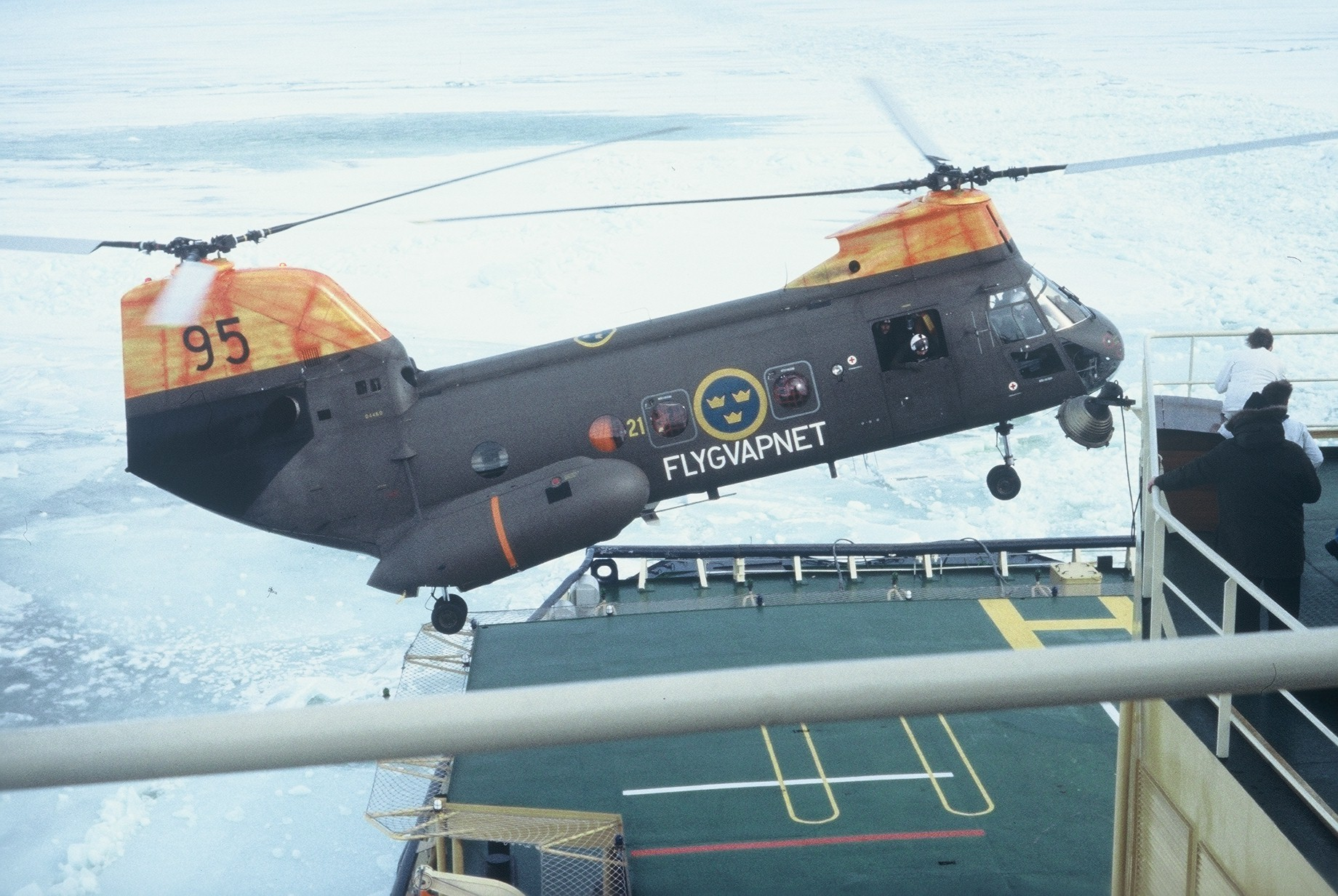 Swedish air force helicopter landing att icebreaker Ymer